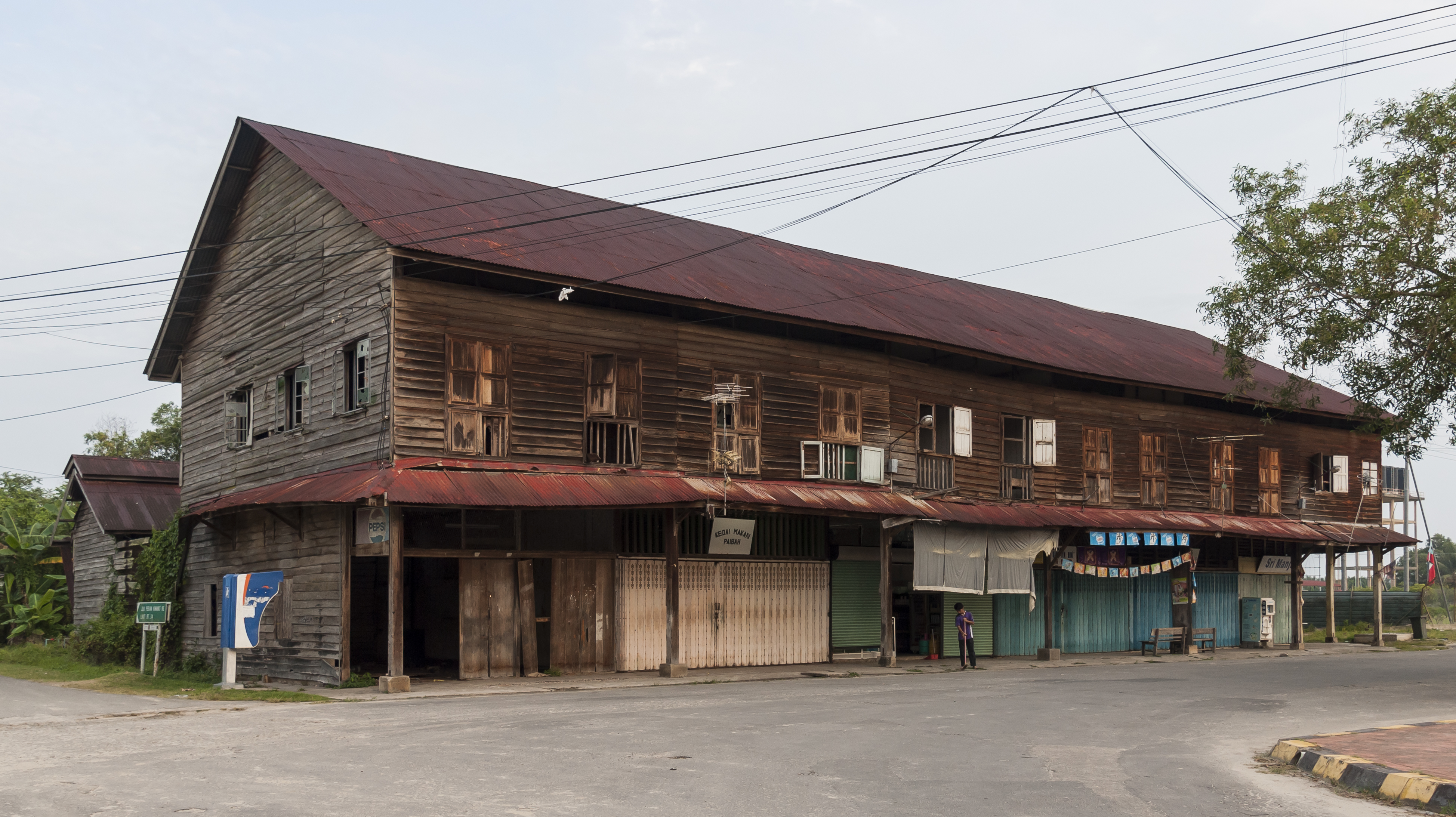 Kimanis, Sabah: Old Shophouse